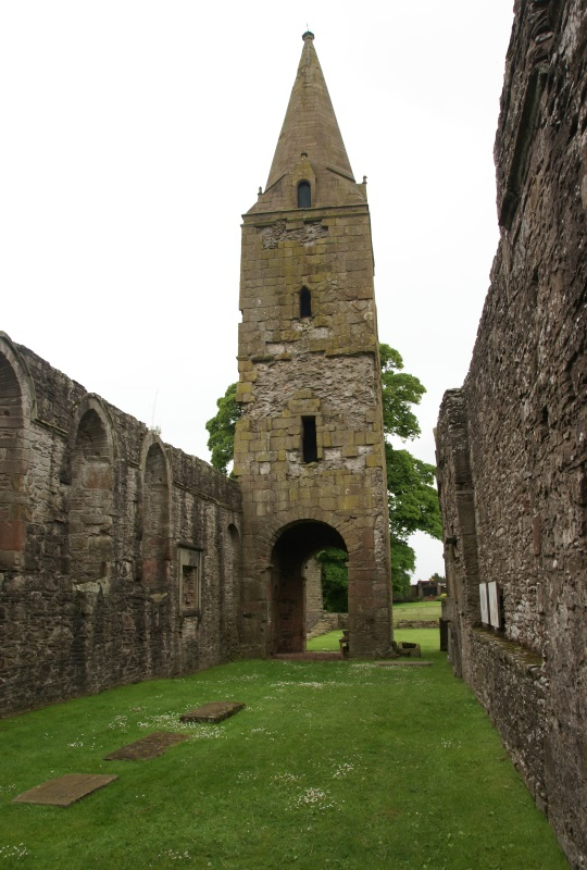 Restenneth Priory, Angus, Scotland. Looking west from within the choir.